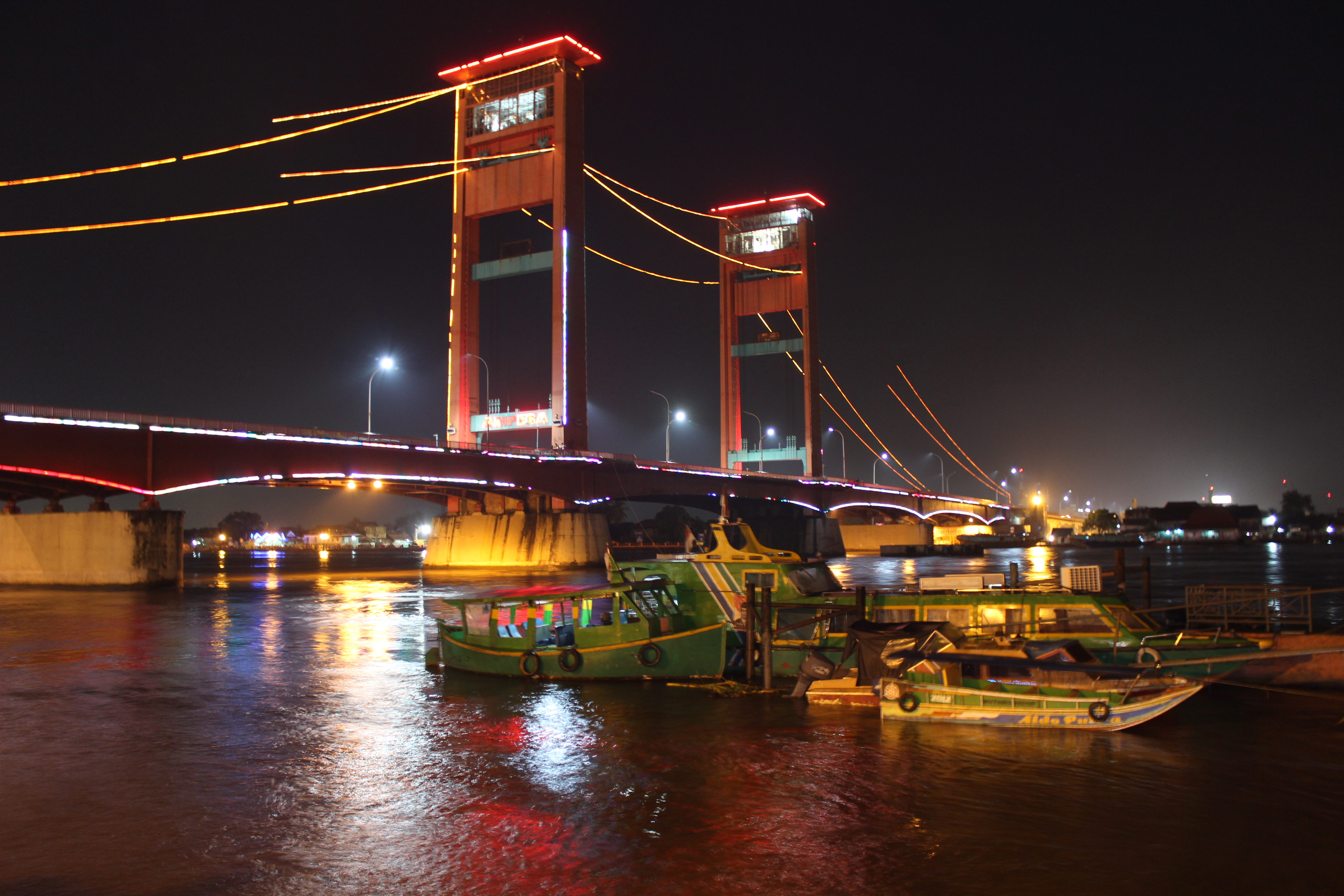 Jembatan Ampera, Palembang, at the night.